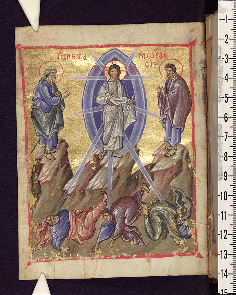 Scene from the Lives of Christ and the Virgin, from a Greek Menologion with Byzantine miniatures, badly flaking, made for Demetrios I Palaiologos, despot of Thessalonike 1322-c. 1340. Shelfmark: Bodleian Library MS. Gr. th. f. 1